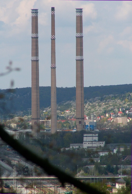 Power station chimneys in Gera, Germany